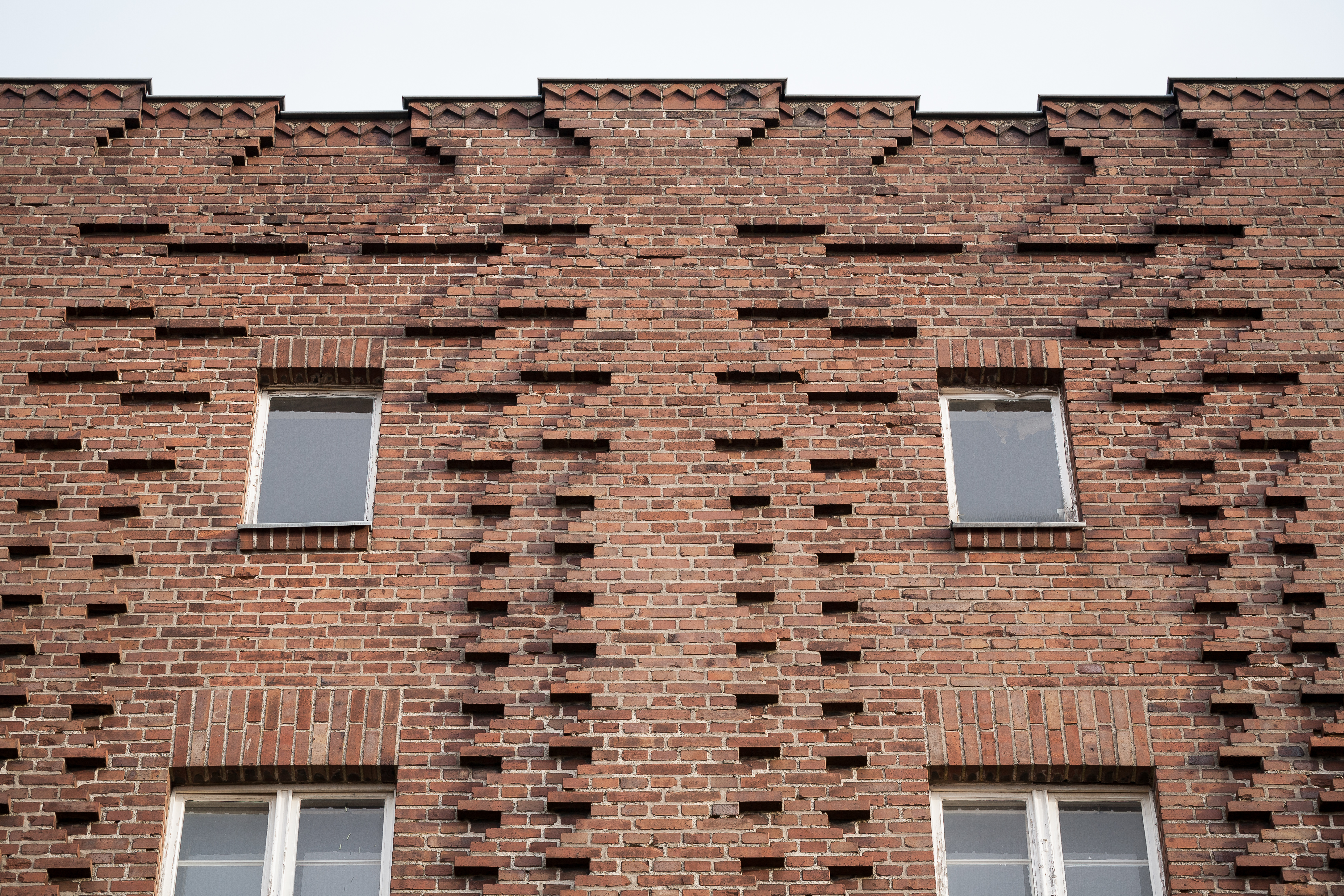 Facade of the former administration building located in Beneckeallee, Hanover, Germany. The architect was Hans Poelzig.